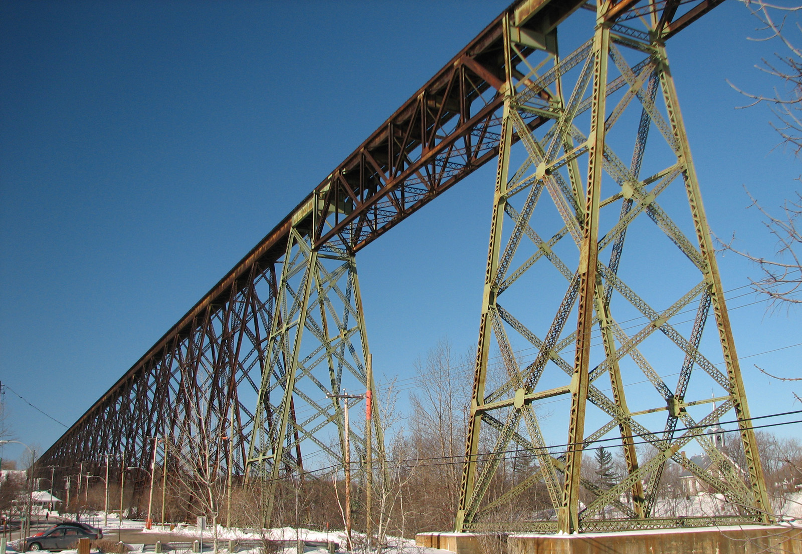 mine